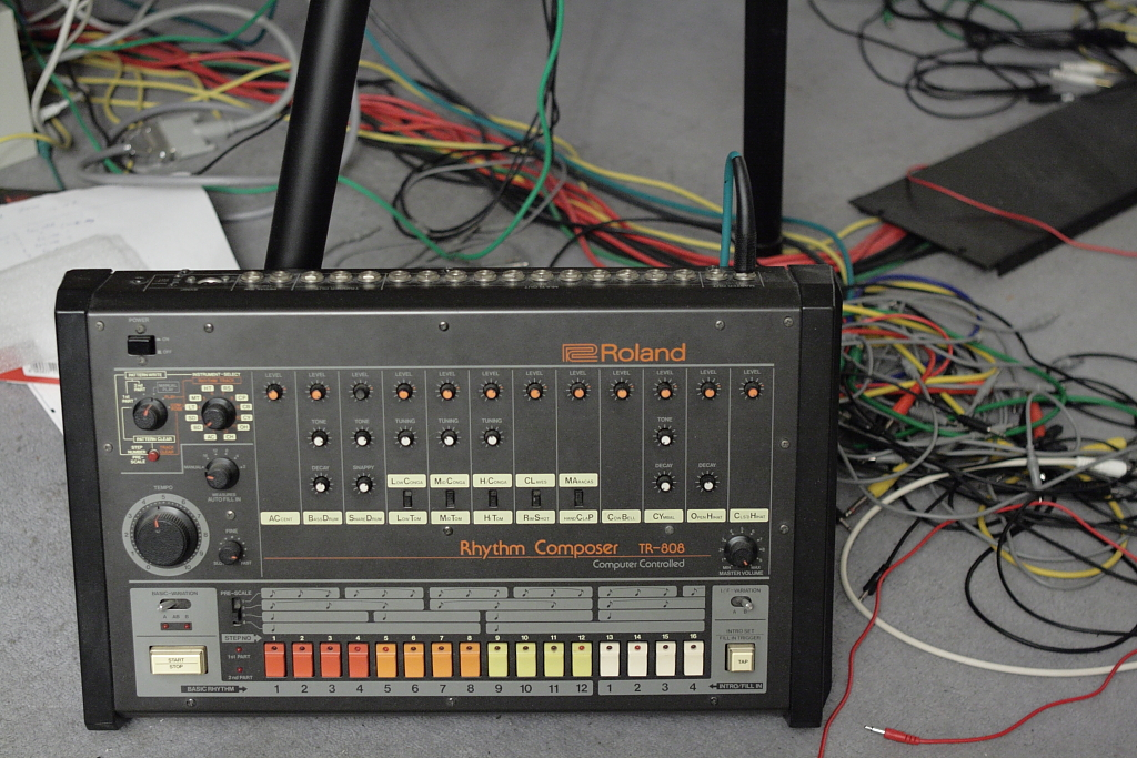 Roland TR-808 Rhythm Composer